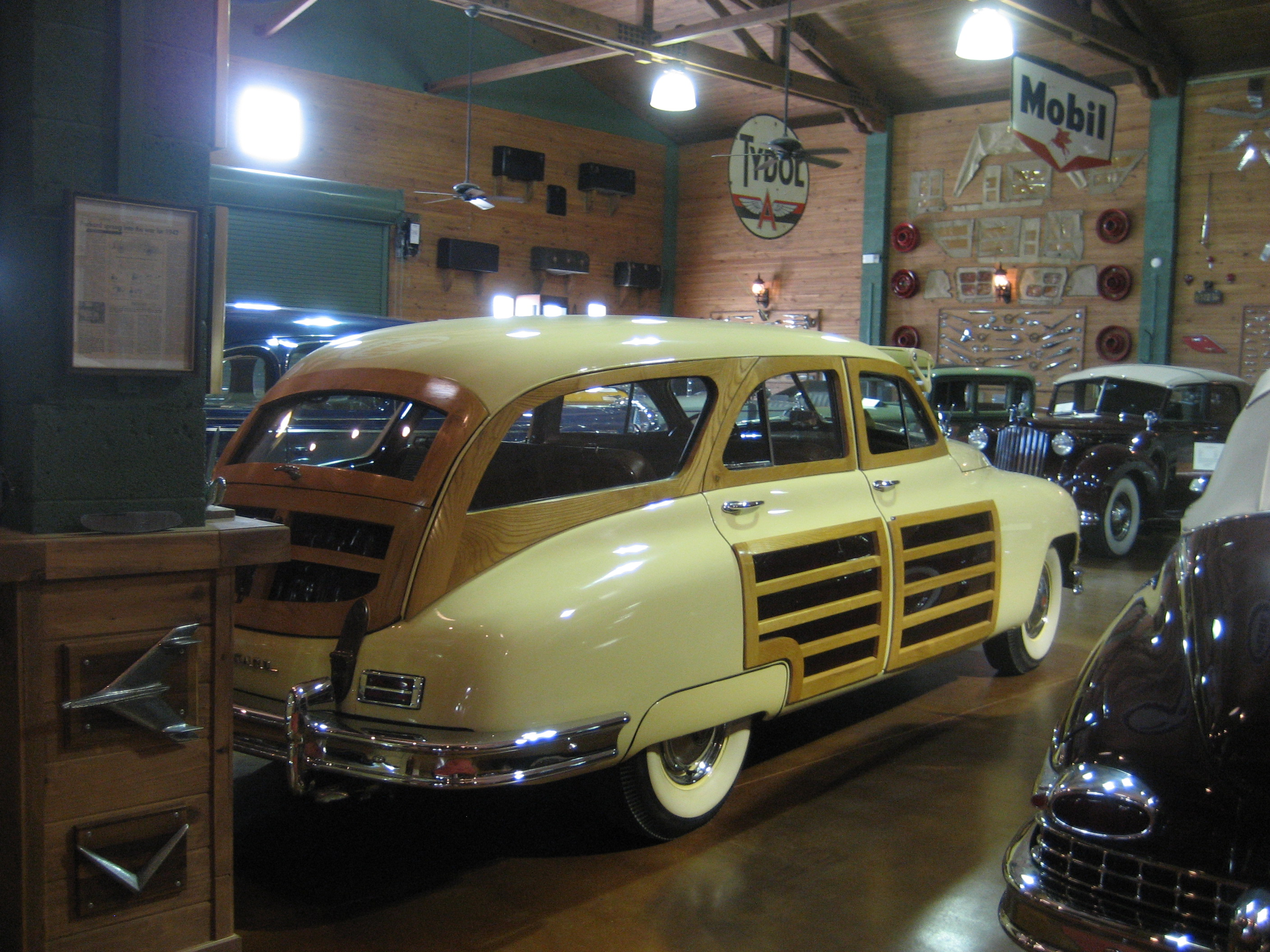 1948 Packard "Woodie"; Model 2201 6 passenger station sedan 8 cylinder 130 hp On display at Fort Lauderdale Antique Car Museum.